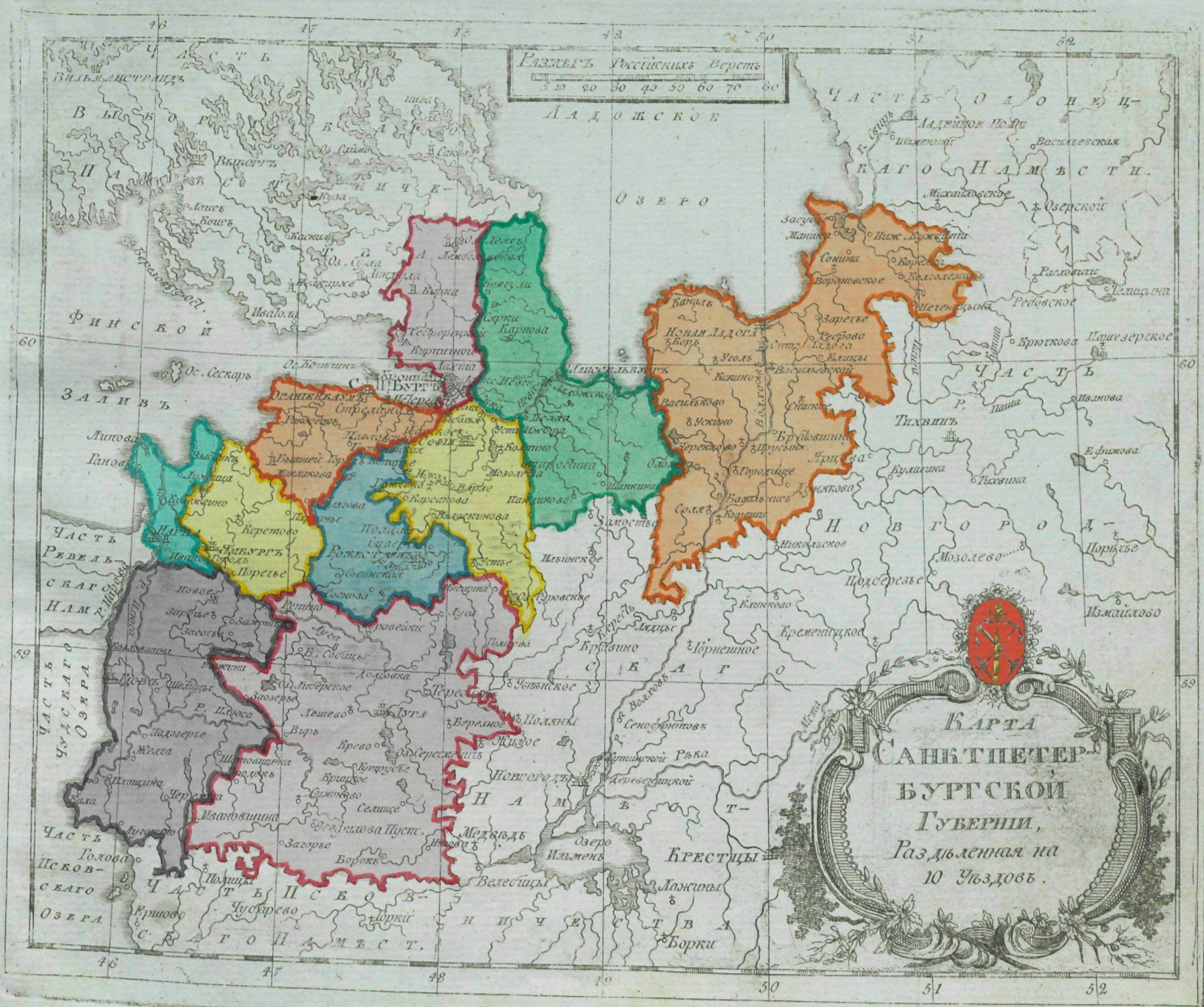 Small atlas of the Russian Empire (1792). Map of Saint Petersburg Governorate (map 2).